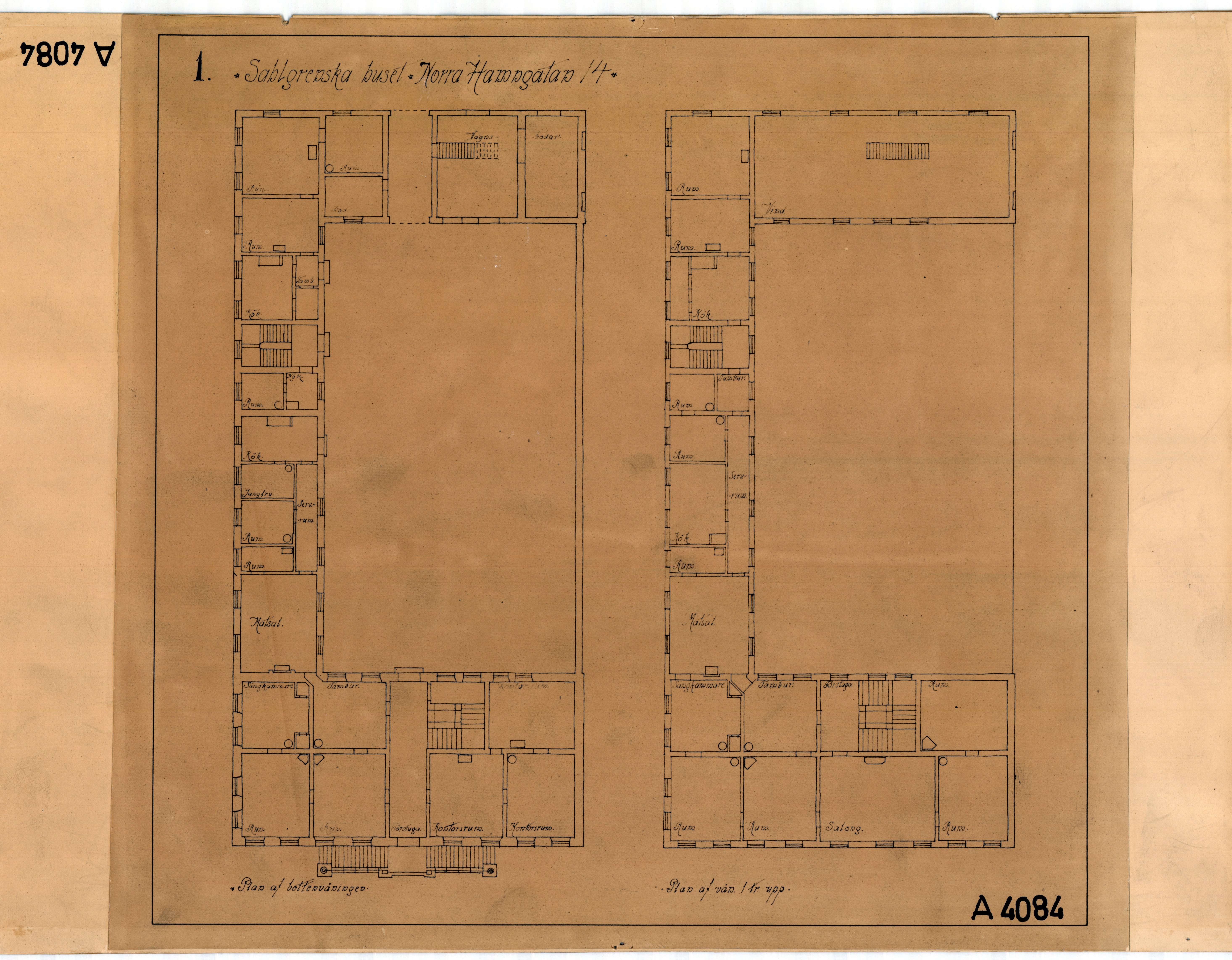 Sahlgrenska huset in Göteborg - plan of ground floor and 1st floor (british convention). Digitilized 2012 by Regionarkivet för Västra Götalandsregionen och Göteborgs Stad. Copyright status: public domain (intellectual property rights have expired).